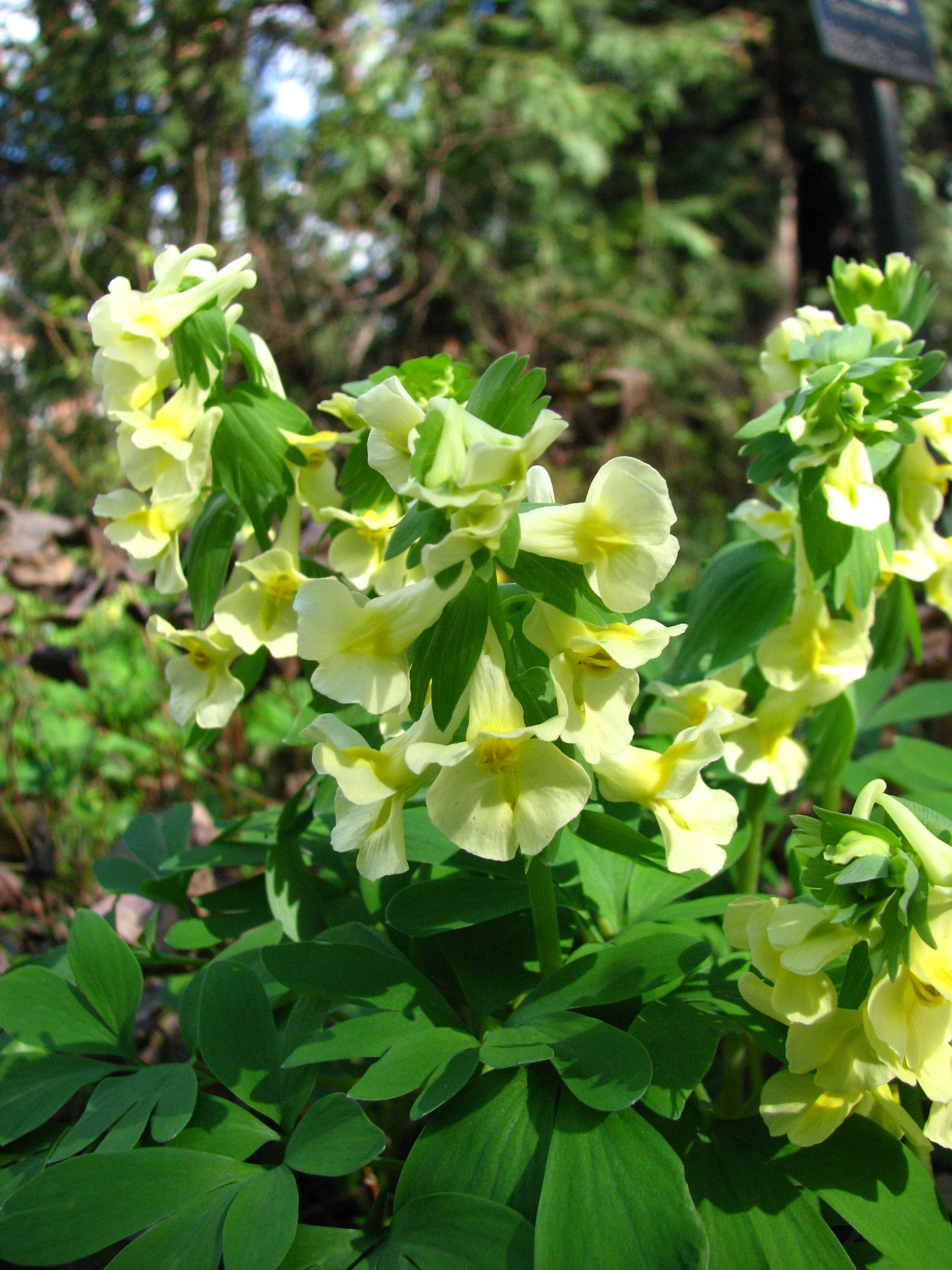 Corydalis marschalliana in flower beds in the Botanical Garden of Moscow State University "Aptekarsky Ogorod".